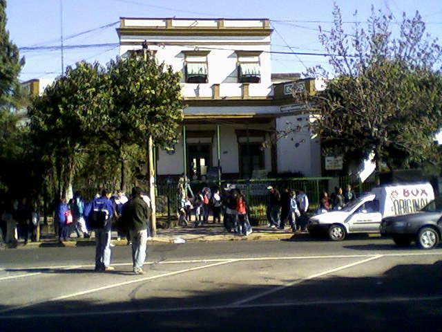 Landaburu House, the residential house of the prominent Landaburu family, an example of the late XIX century architecture in Merlo.